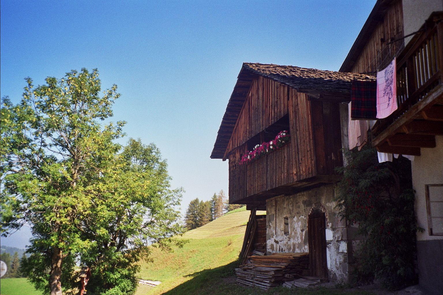 South Tyrol, La Val, Furnacia: old house in the "romanesque" style